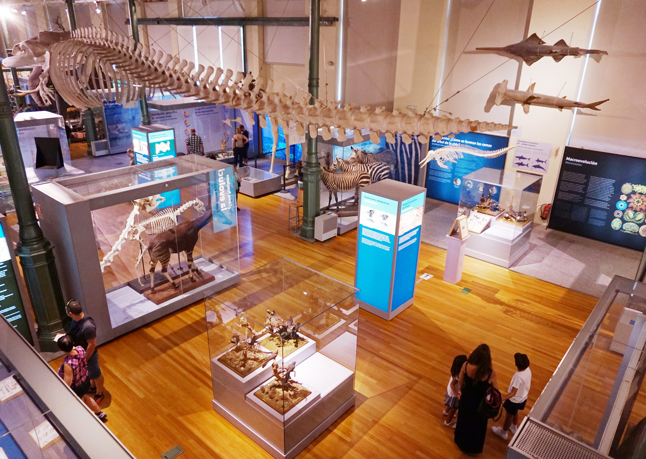 National Museum of Natural Sciences of Spain